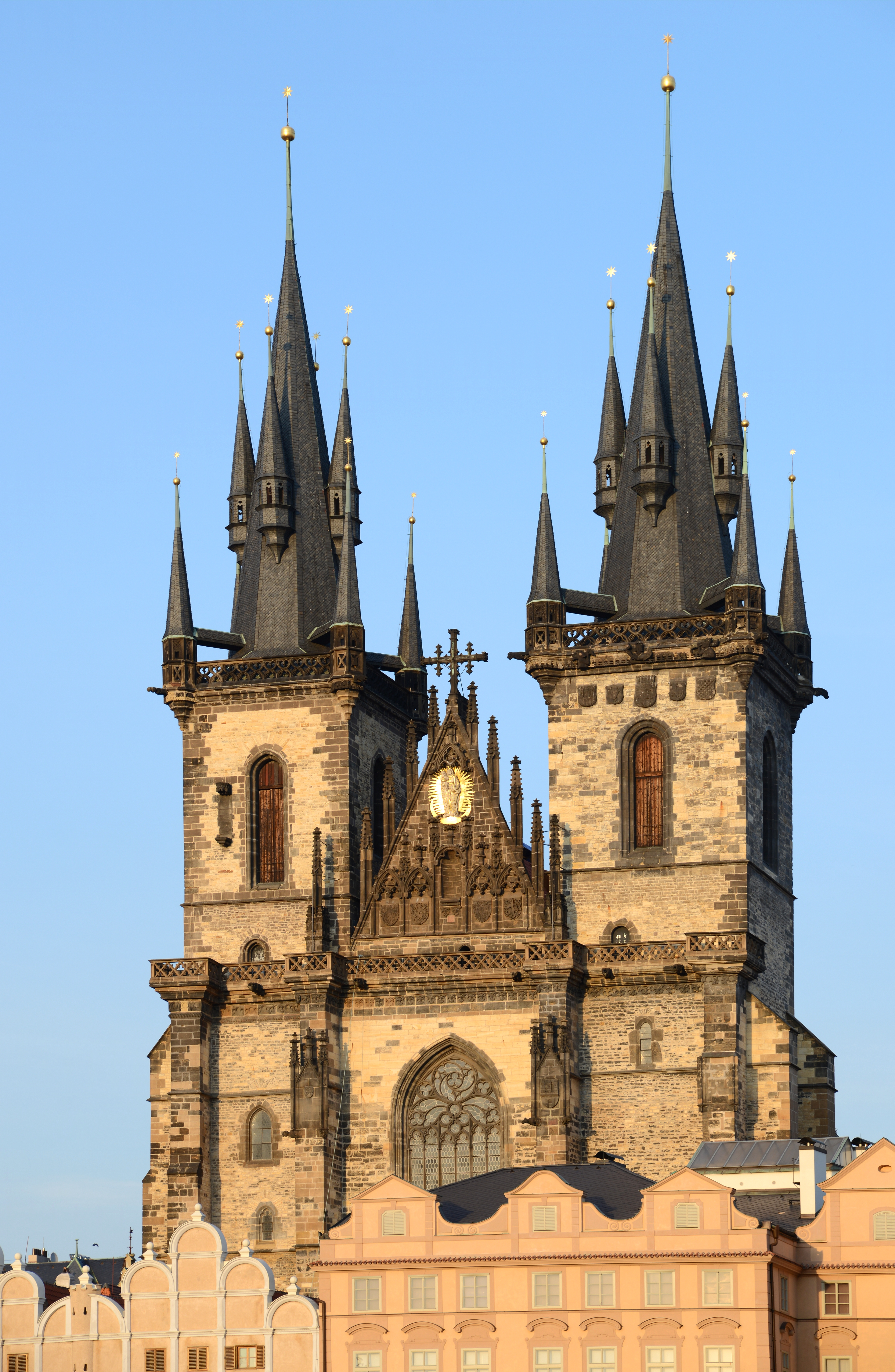 Facade of the church of Our Lady Before Tyn, Prague